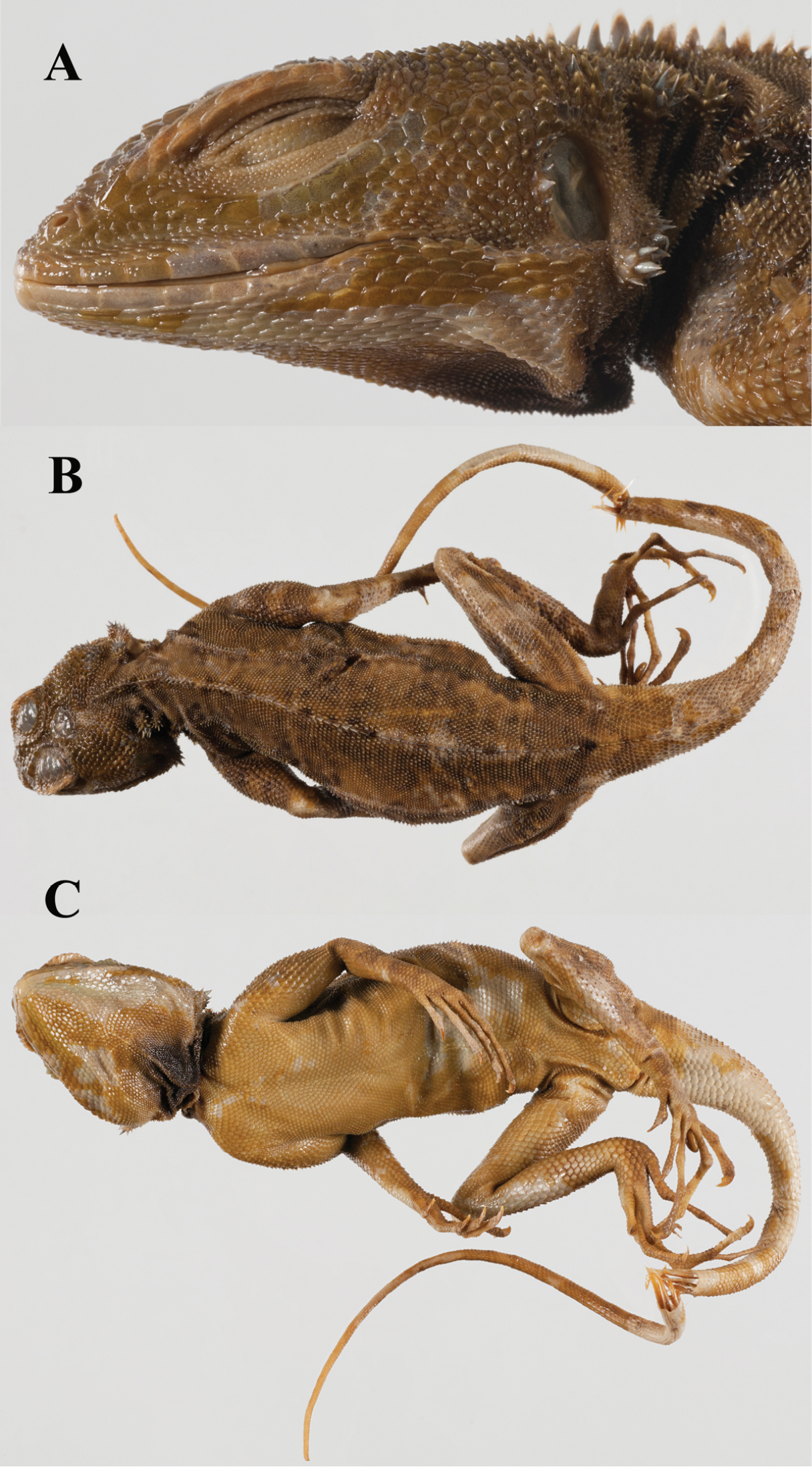 The holotype of Lacerta plica Linnaeus, 1758, NRM 112. Note the tuft of spines on the anterior edge of the auditory meatus (A); the indistinct spots on the dorsum (B) and the double dewlap fold (C). Photo credit: Sven Kullander.